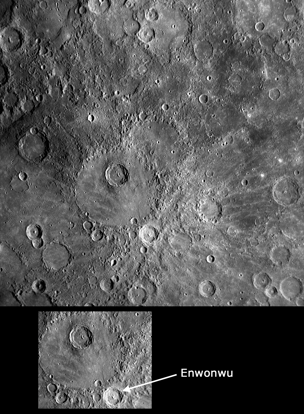 Date Acquired: January 14, 2008 Image Mission Elapsed Time (MET): 108829024 Instrument: Narrow Angle Camera (NAC) of the Mercury Dual Imaging System (MDIS) Resolution: 590 meters/pixel (0.37 miles/pixel) Scale: Enwonwu is 38 kilometers (24 miles) in diameter Spacecraft Altitude: 23,000 kilometers (14,300 miles) Of Interest: The feature indicated by the white arrow in this NAC image is the newly named crater Enwonwu. It is named in honor of Benedict (Ben) Chukwukadibia Enwonwu, the twentieth century modernist Nigerian sculptor and painter. Enwonwu crater displays a central peak and a set of bright rays emanating from the crater rim. The rays cross the surrounding surface and neighboring craters, indicating that Enwonwu crater was formed comparatively recently in Mercury’s history. The brightness of the rays also suggests relative youth, as over time rays darken and disappear on Mercury's surface. These relationships provide useful indicators for determining the relative ages of features and the sequence of events that have shaped the surface of Mercury. Credit: NASA/Johns Hopkins University Applied Physics Laboratory/Carnegie Institution of Washington